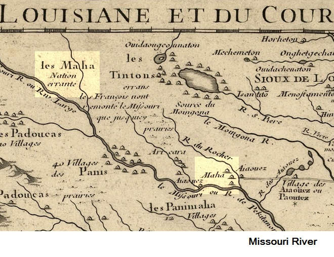 Detail of 1718 map by French cartographer De L'isle with Middle and Upper Missouri River. Villages of the Maha (Omaha Indians) and the Iowa Indians as well as main area of "Les Omaha Nation errante" (The wandering Omaha) located.